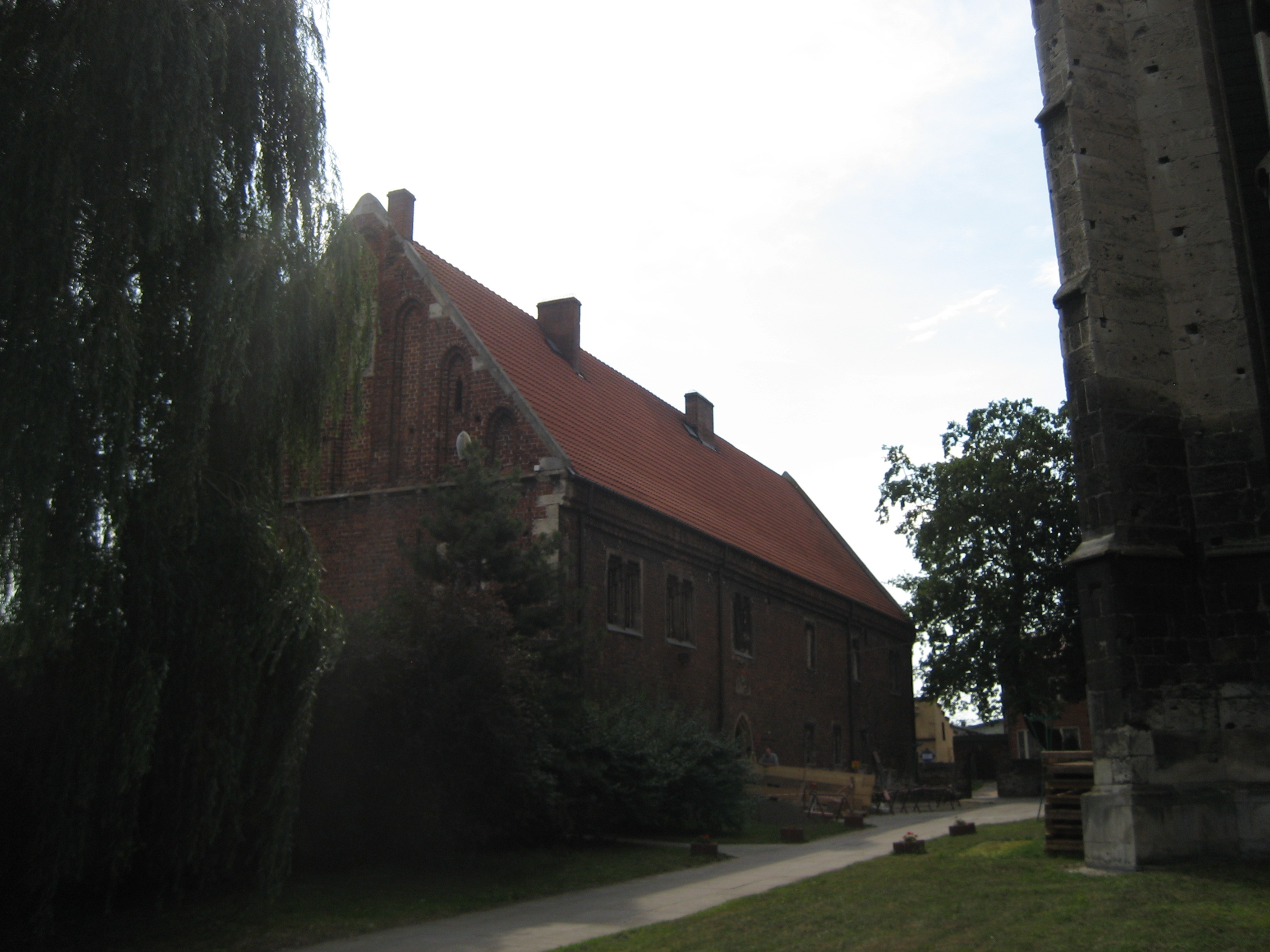 Jan Długosz's house (left) at Wiślica, Poland, built by him in 1460 for the canons and vicars of (right) the Church (now Minor Basilica) of the Virgin Mary.